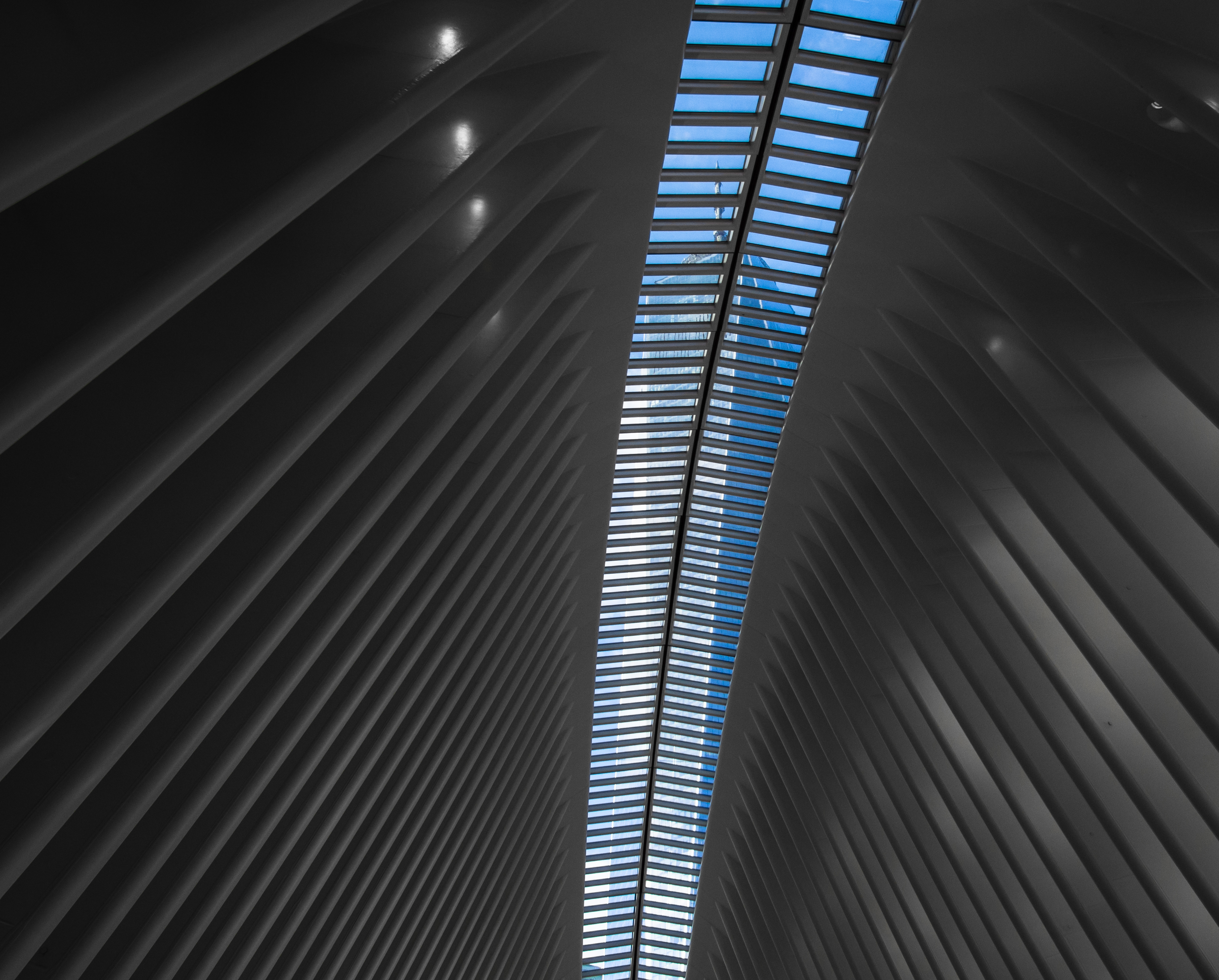 One World Trade Center viewed through the ceiling window of the Oculus (World Trade Center station). According to The New York Times: "The main axis of the 360-foot-long concourse would be aligned with the angle of the sun at 10:28 that morning [of September 11, 2001], when the second tower collapsed."